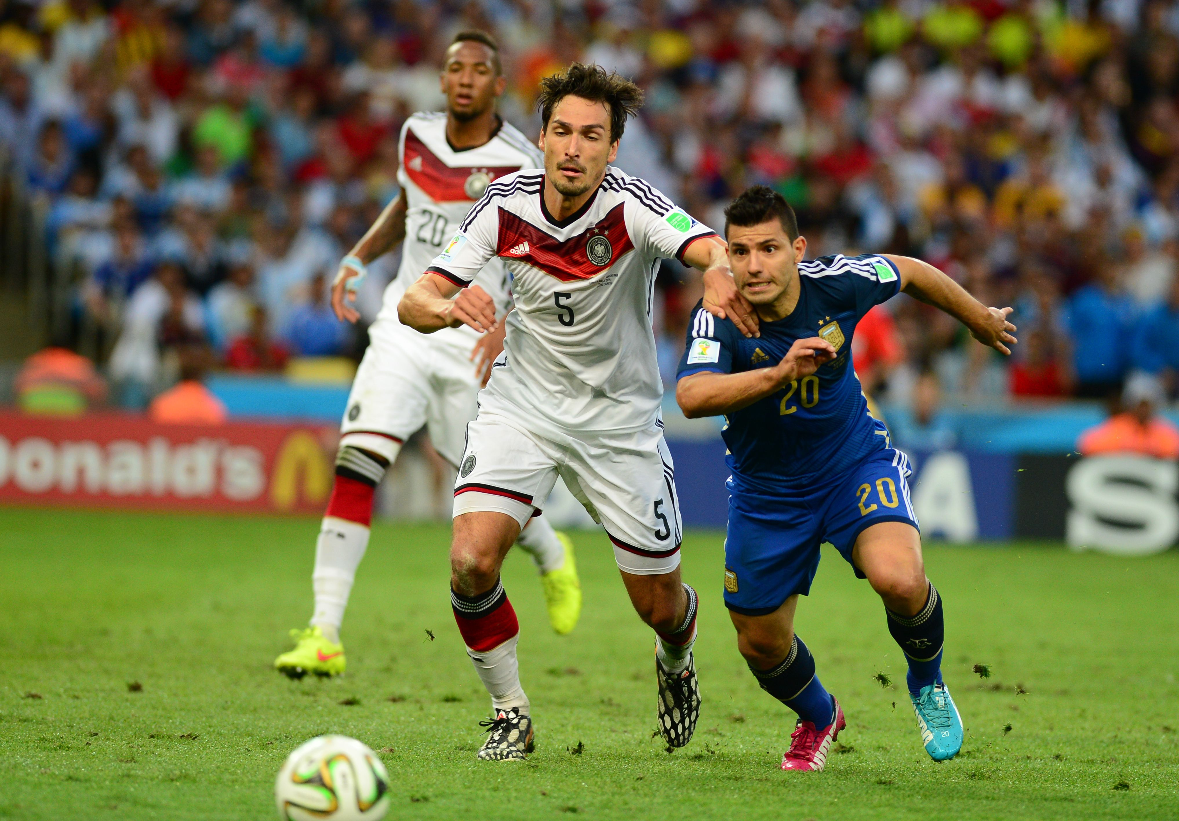 Germany and Argentina face off in the final of the World Cup